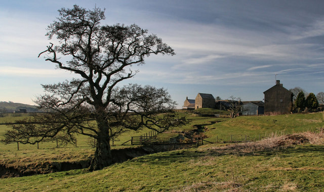 Hole